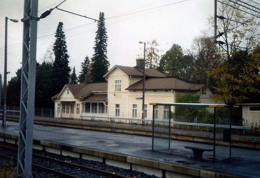 Järvelä railway station in Kärkölä, Finland